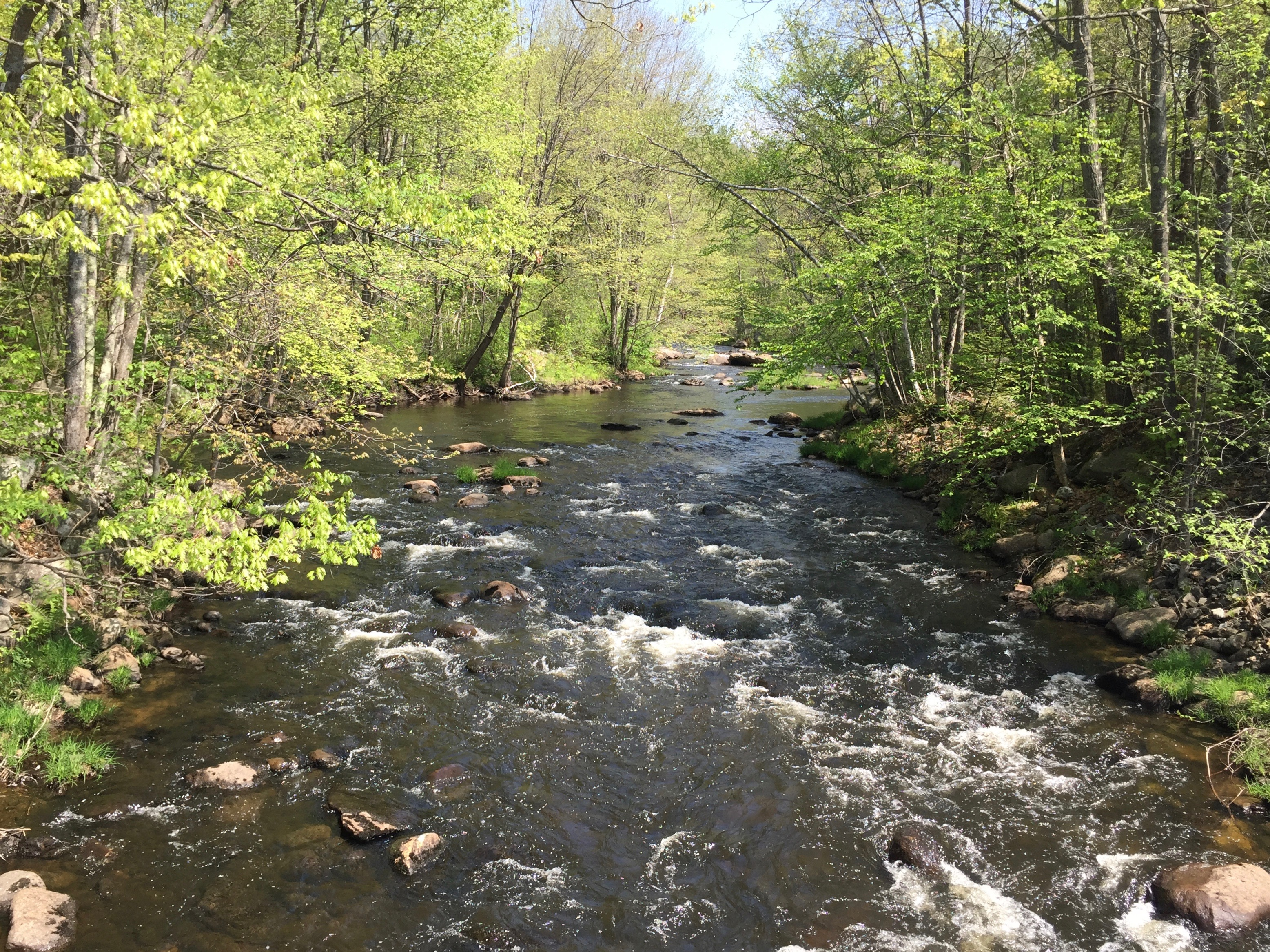 The North Branch Sugar River in Croydon, New Hampshire, May 2016